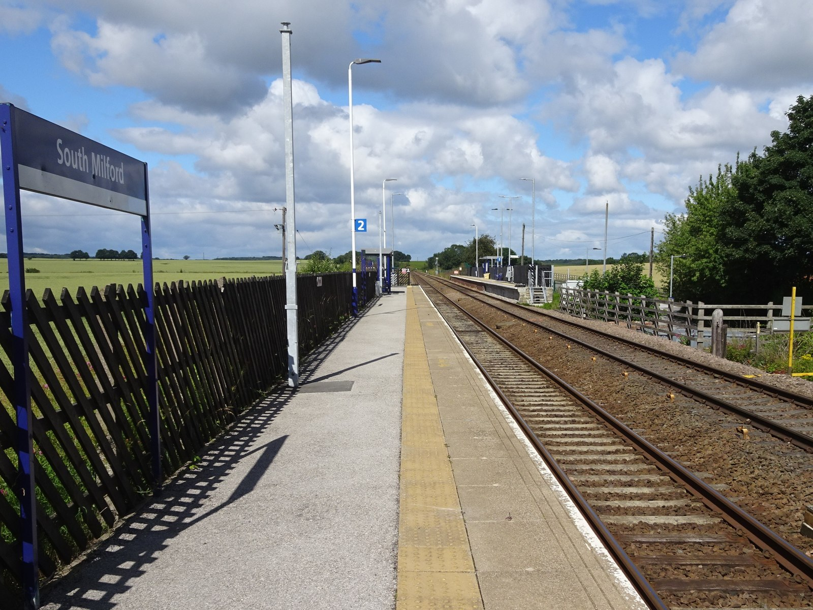 South Milford railway station, YorkshireOpened in 1834 as "Milford" by the Leeds and Selby Railway, later part of the North Eastern Railway, the station became "South Milford" in 1867. View west towards Micklefield and Leeds. New platform shelters have been erected since SE4932 : South Milford railway station, Yorkshire, 2008 was taken some 12 years earlier.